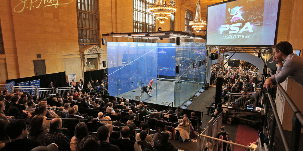 Squash Tournament of Champions 2019, Grand Central Station, NYC